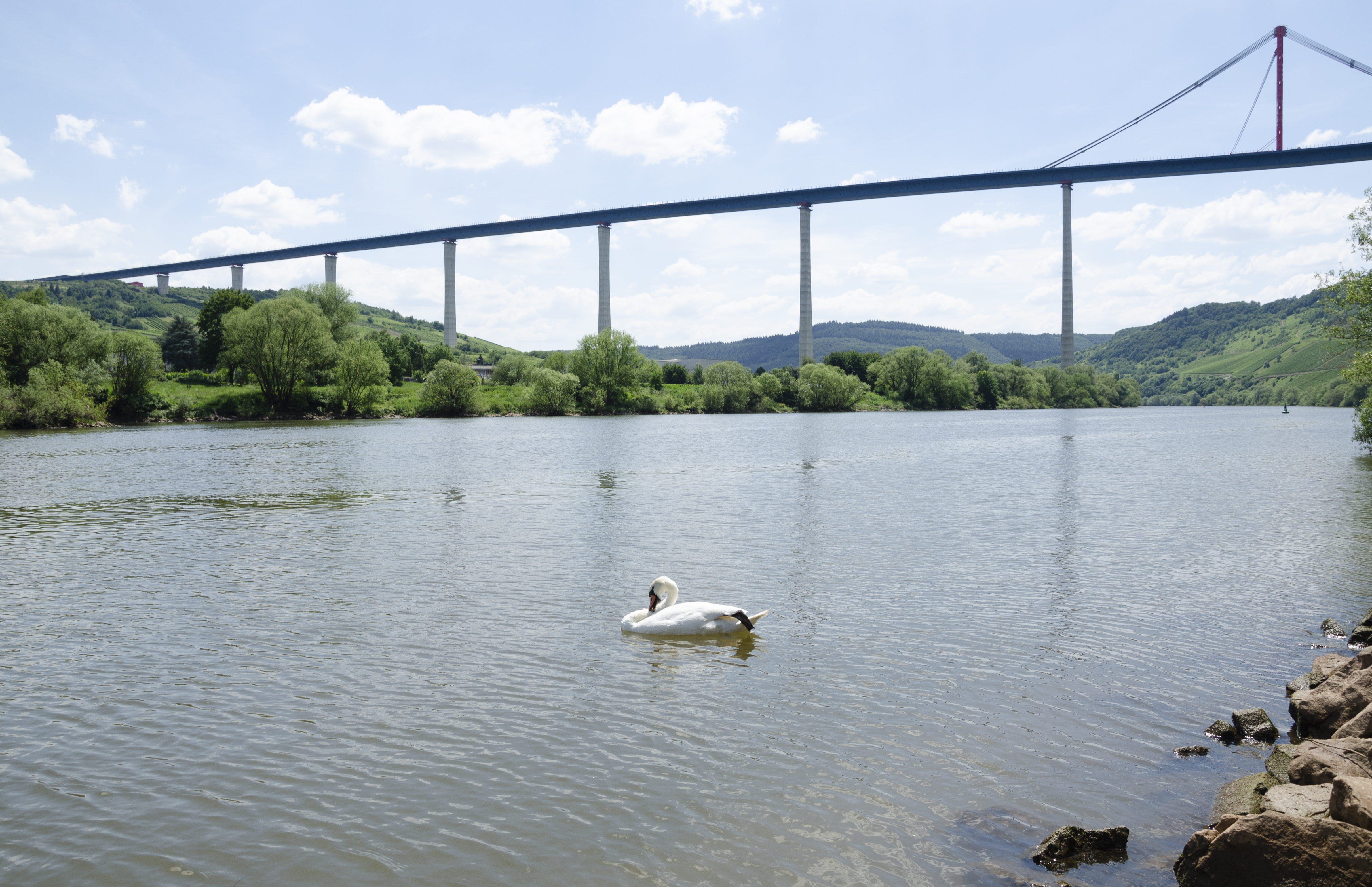 Mute swan (Cygnus olor) on the Mosel river. In the background is the "High Mosel bridge", was still under construction, when this poto was taken.